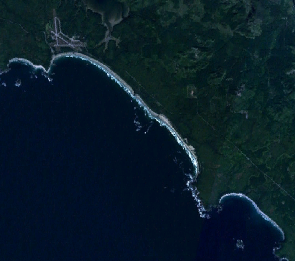 Satellite photo of Long Beach, Vancouver Island, British Columbia, Canada.